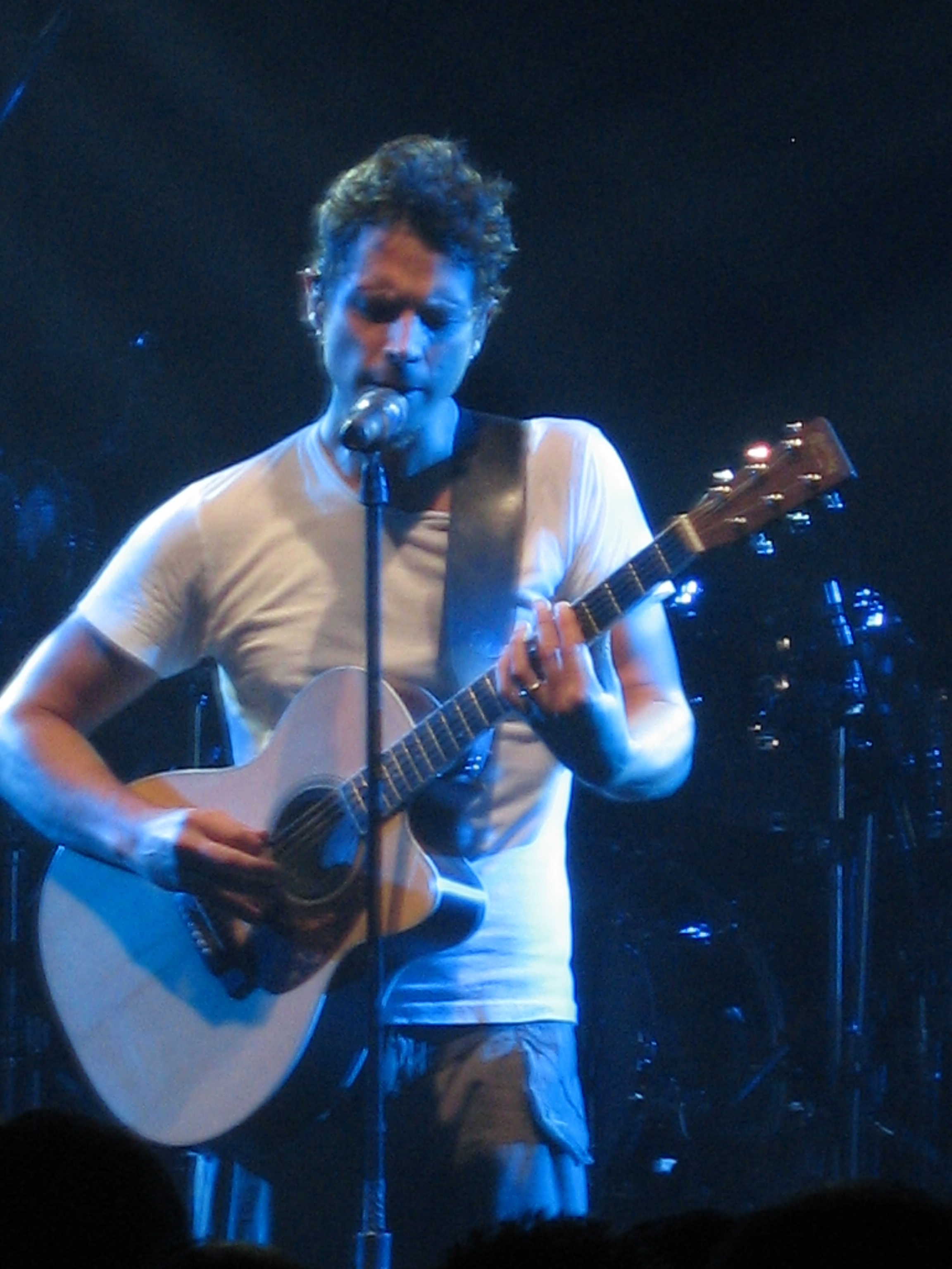 Chris Cornell played a few solo songs from Soundgarden (including Black Hole Sun) as an encore.